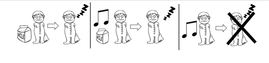 exemple d'efecte de bloqueig